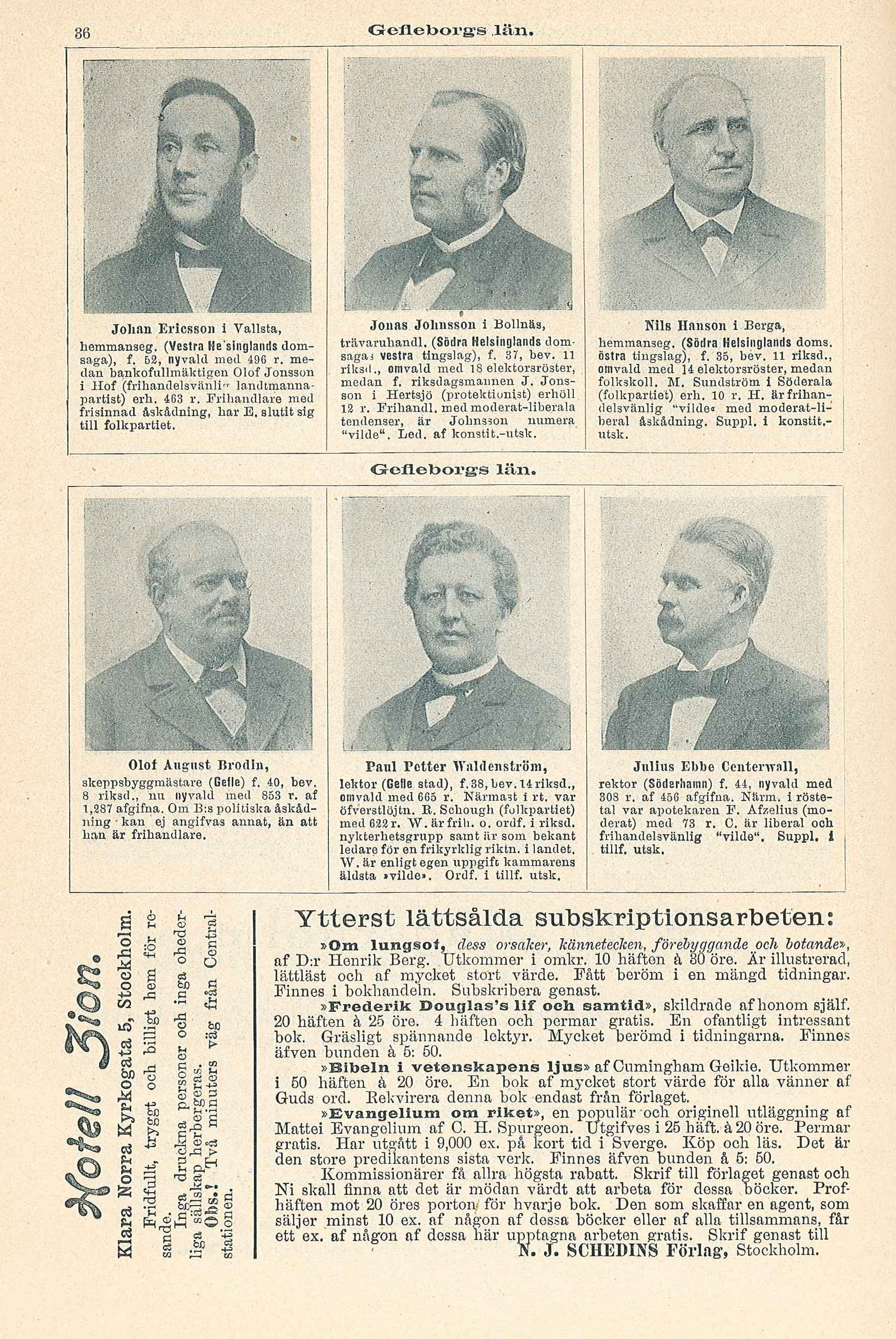 Page 36 of an album featuring portraits of all the members of the second chamber of the Swedish parliament (Sveriges riksdag) elected in 1897. This page featuring parts of the members representing the county of Gävleborg.